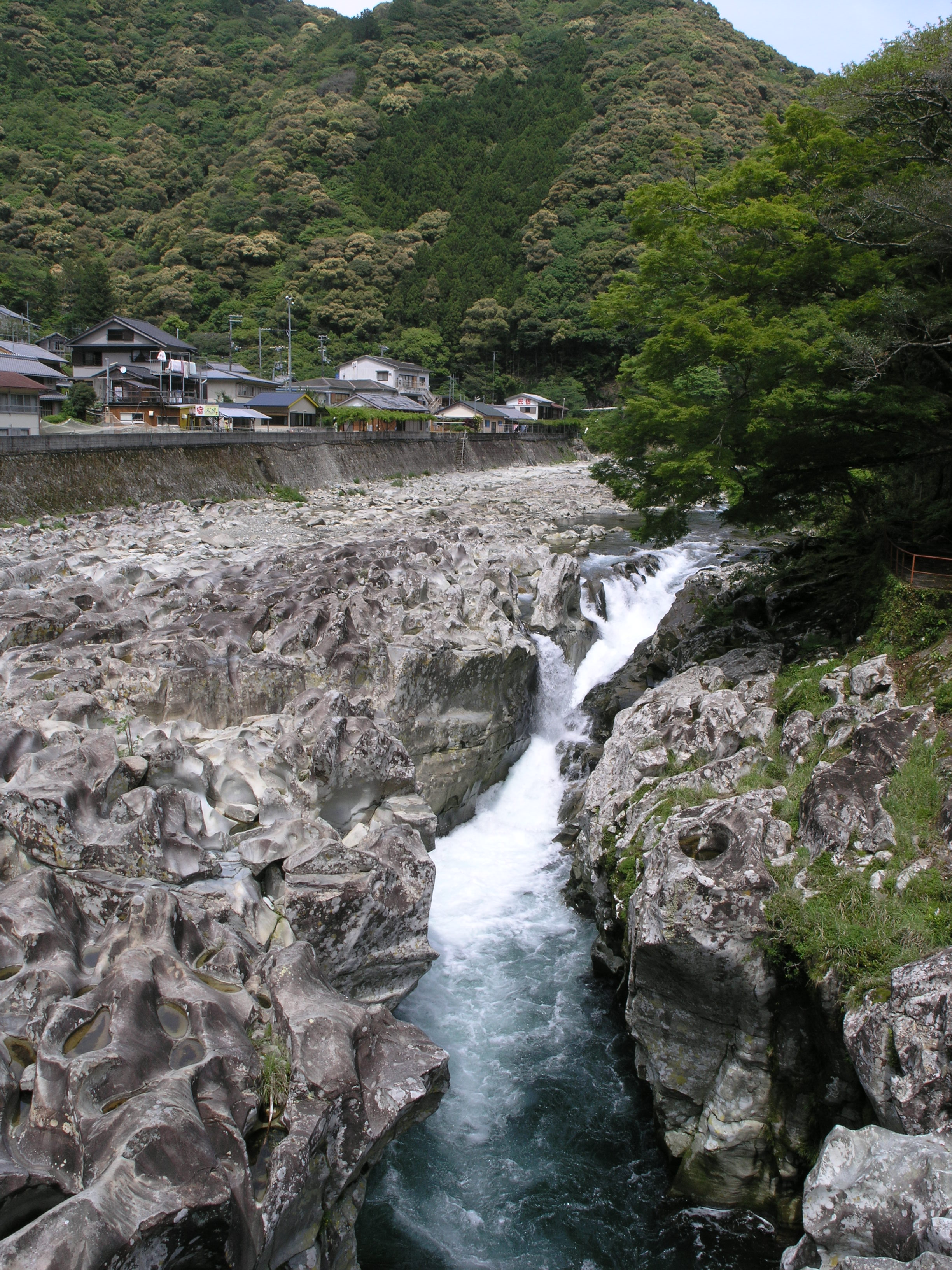 Takinohai in Kozagawa, Wakayama.